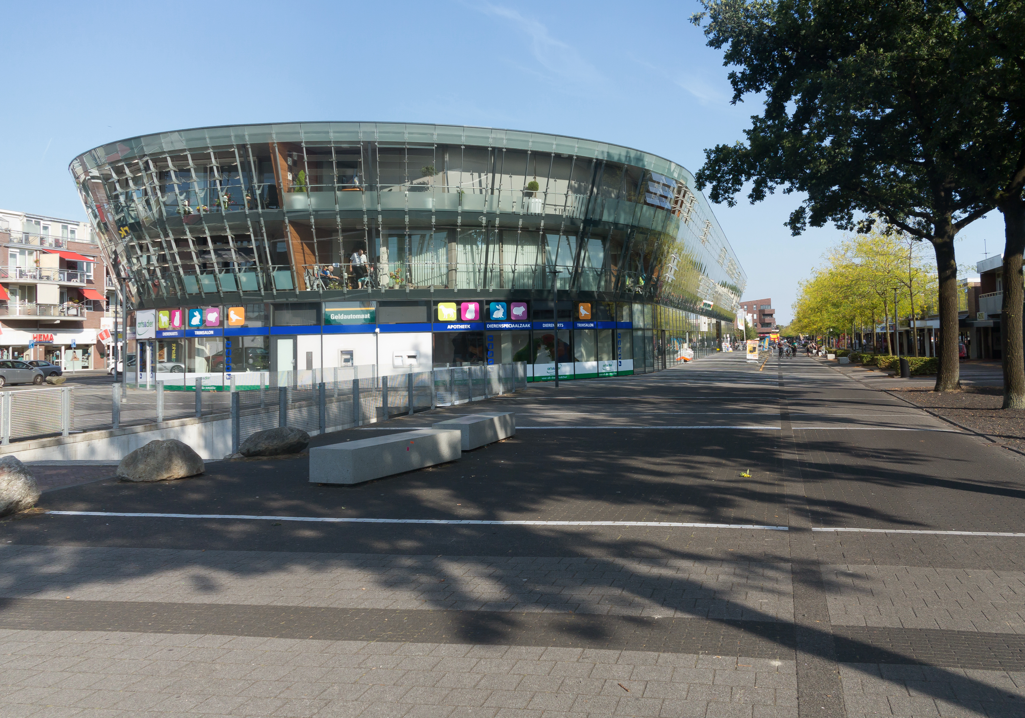 Klazienaveen wshopping mall: 't Schip